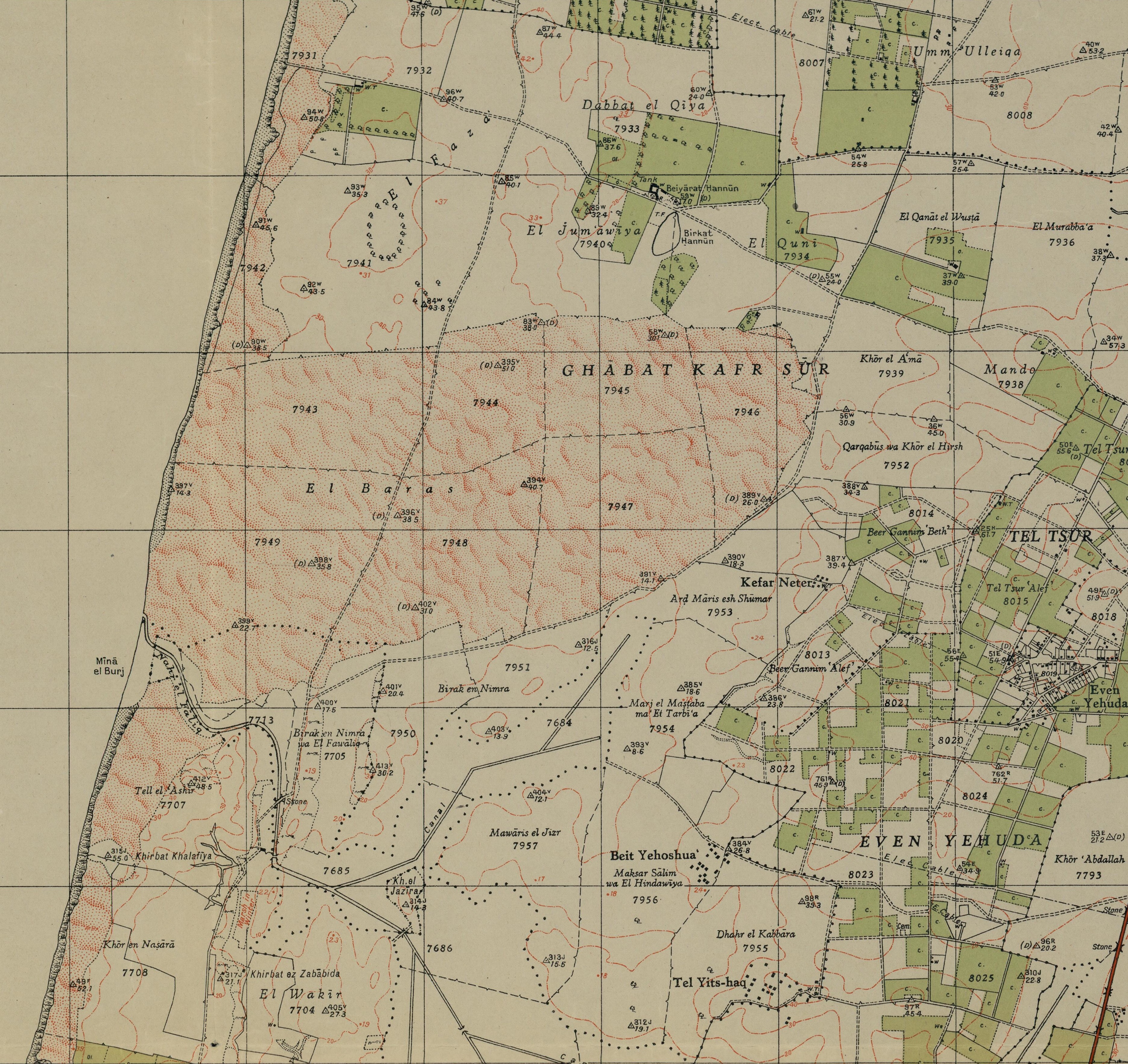 Tel Tsur 1944 1:20,000